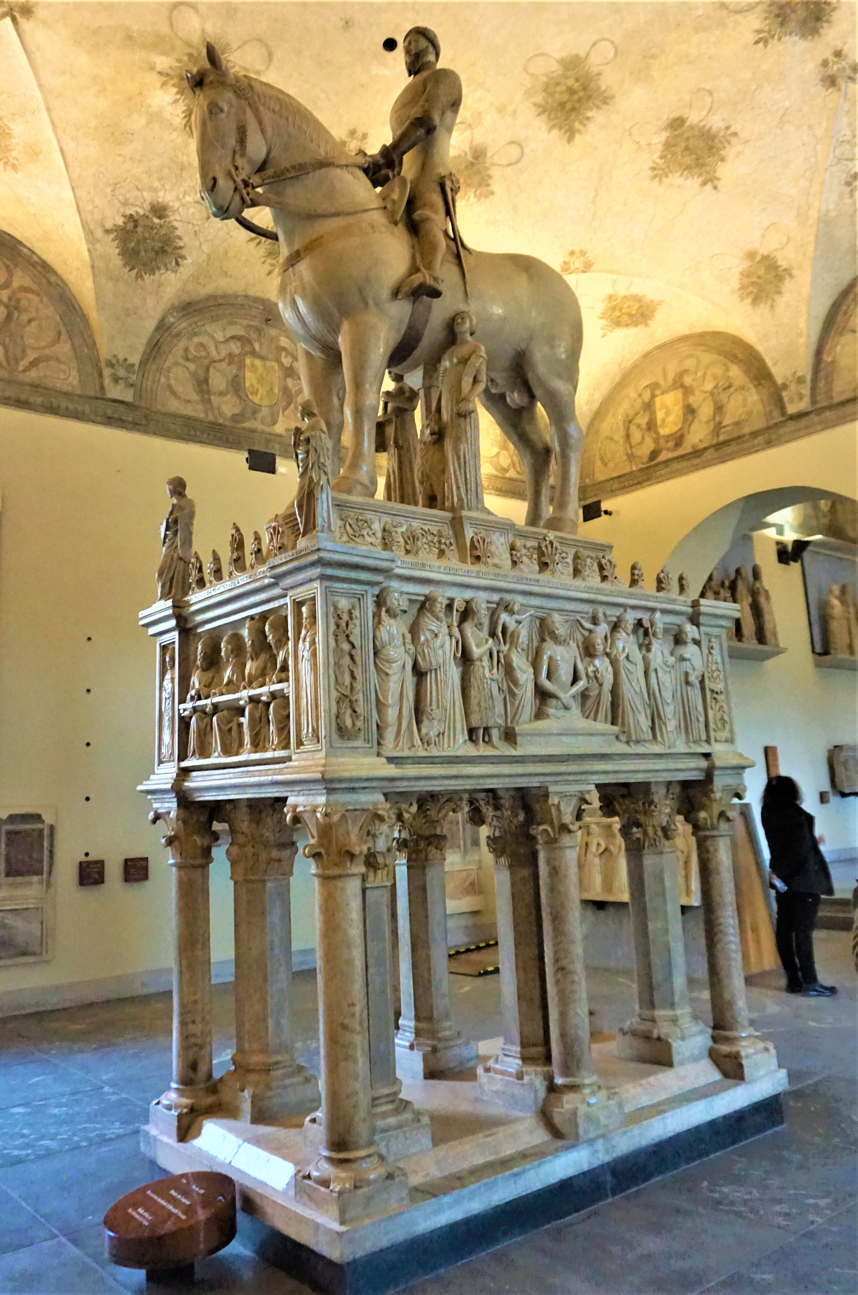 The Tomb of Bernabò Visconti - Details at